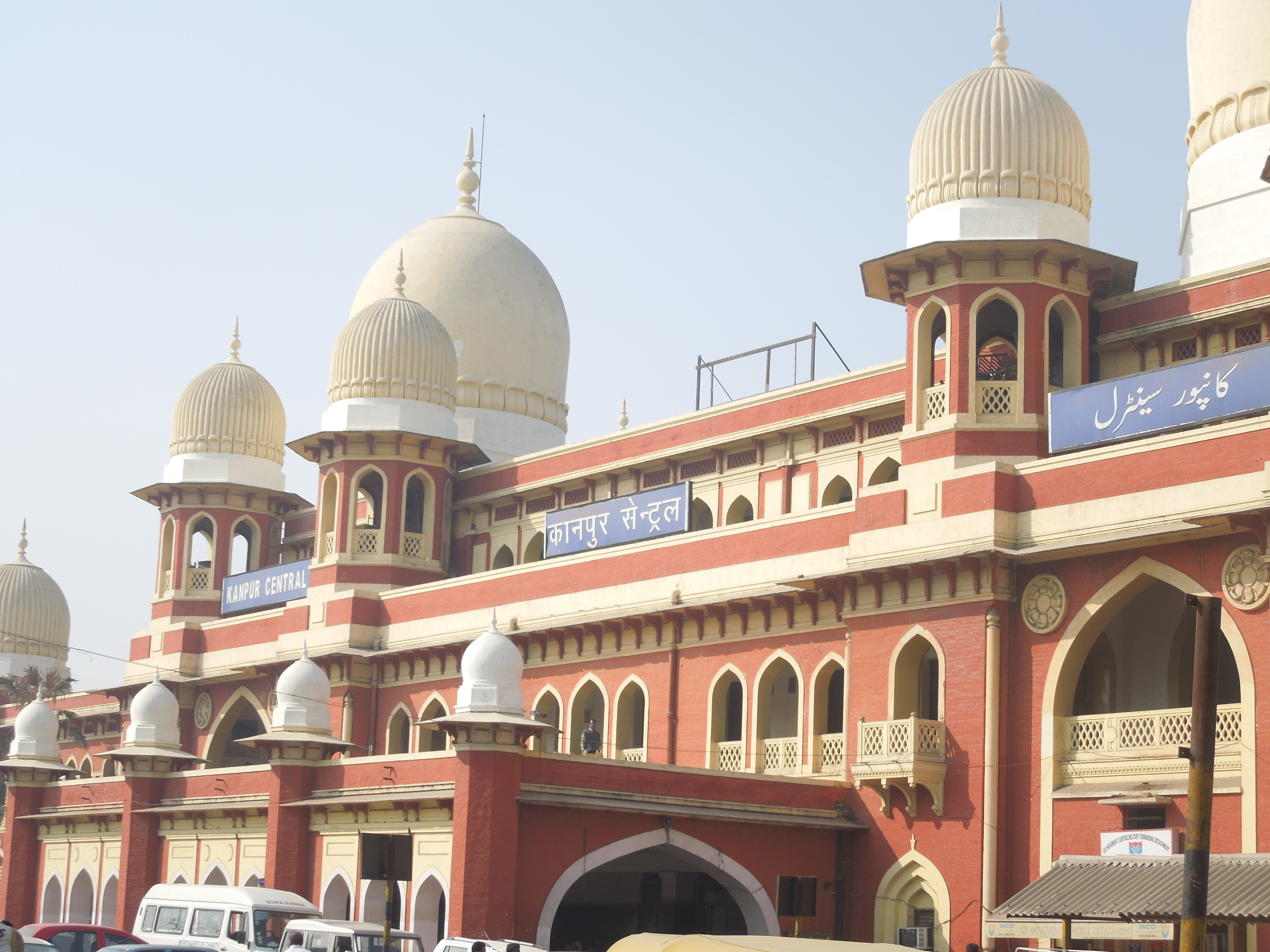 view of kanpur central